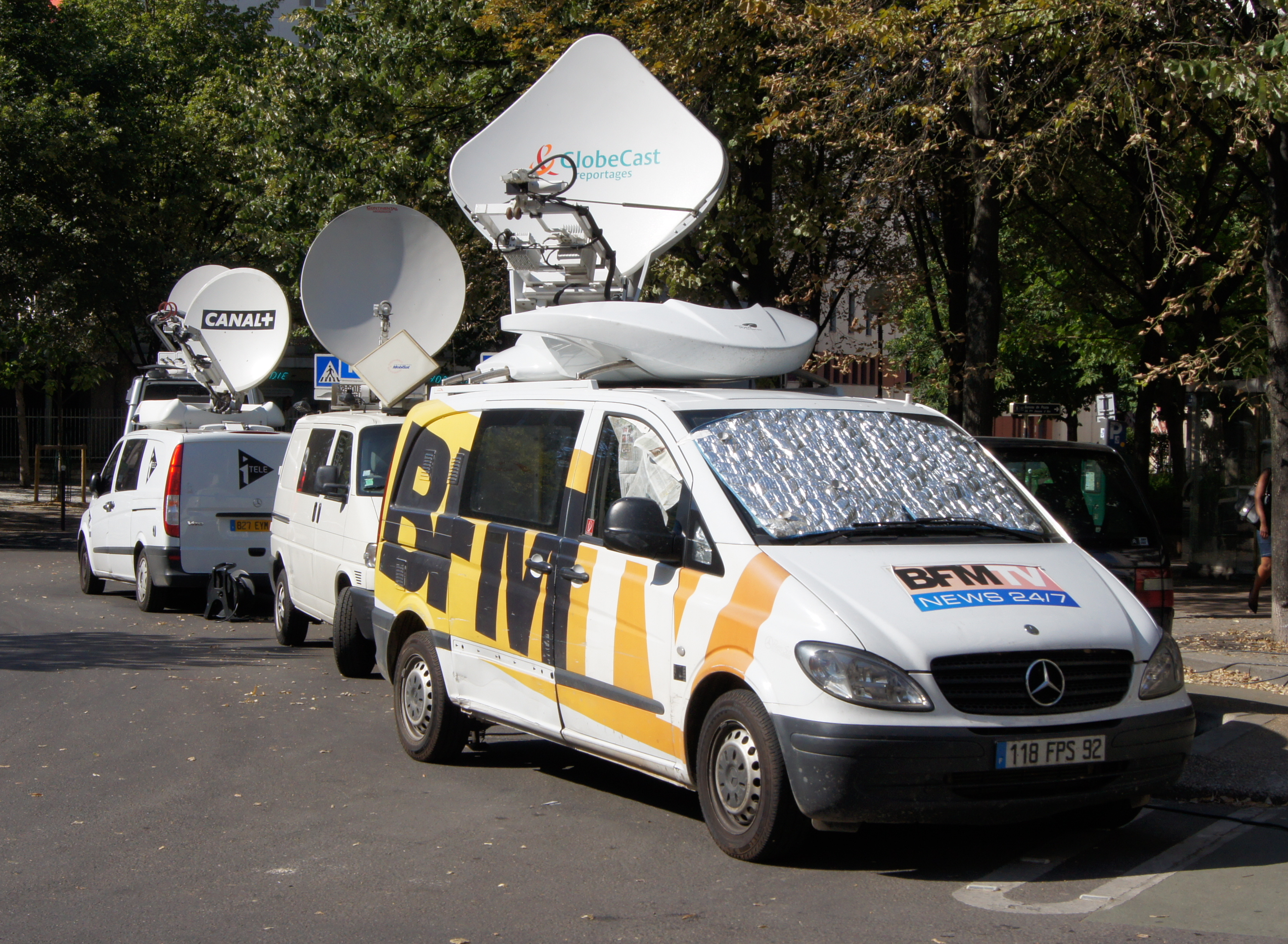 outside broadcasting vans of french TV channels